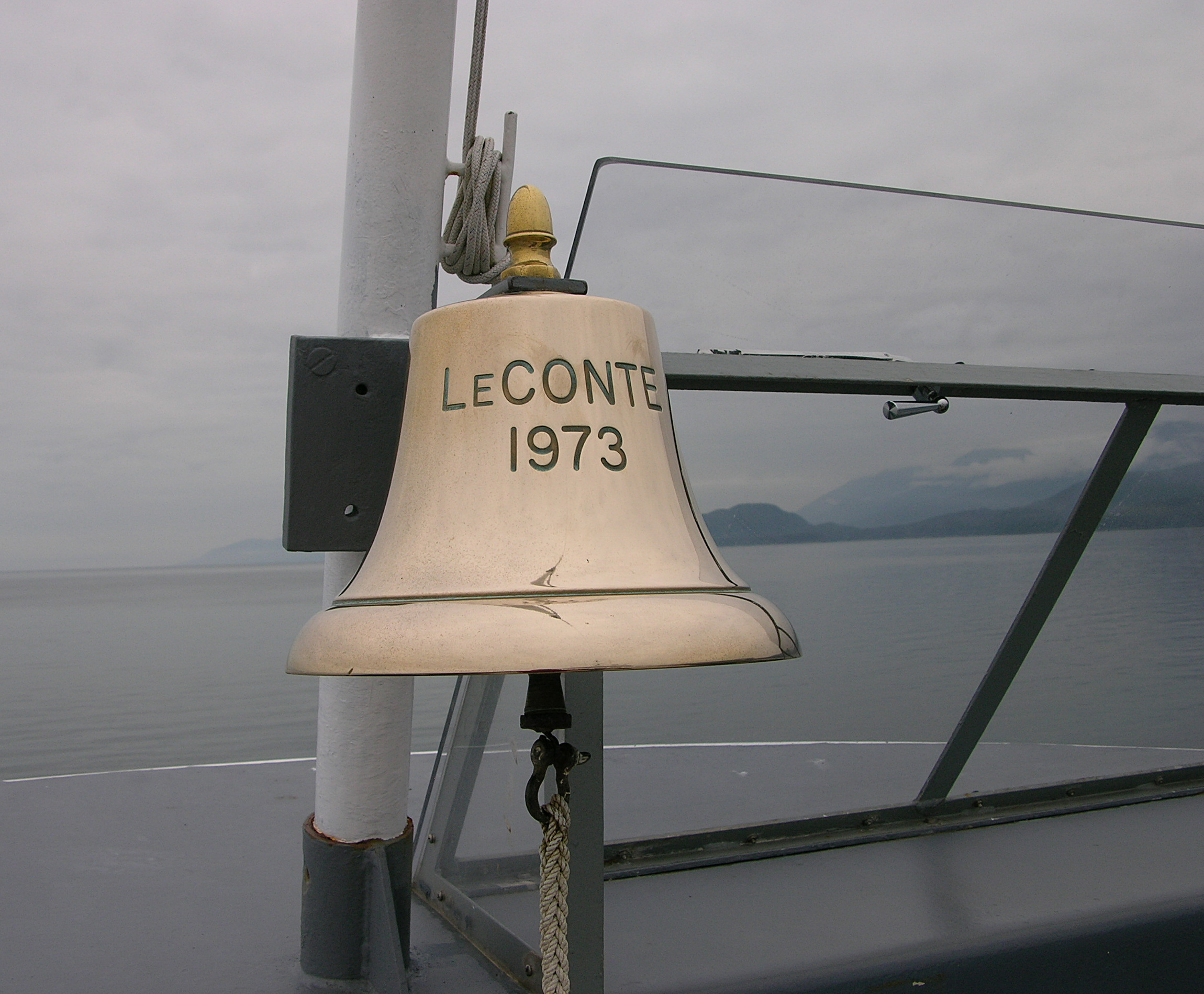 A photograph of the identification bell on the front of the M/V LeConte, a ferry boat in the Alaska Marine Highway.